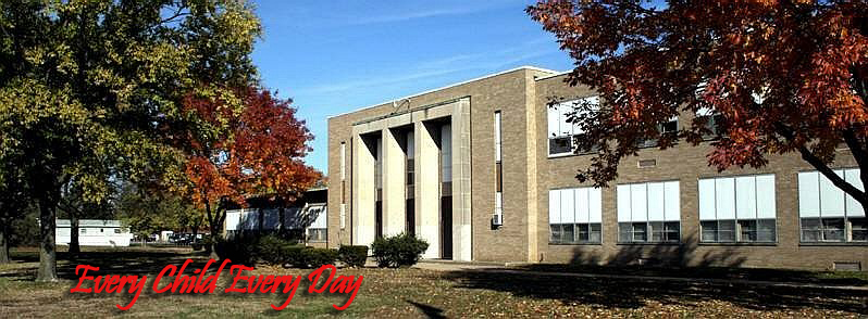 The front of Havana High School in fall with school motto